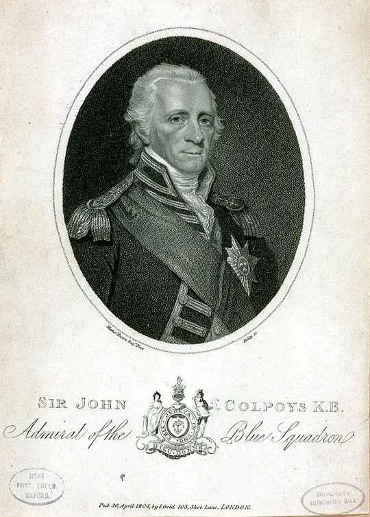 Sir John Colpoys K.B. Admiral of the Blue Squadron